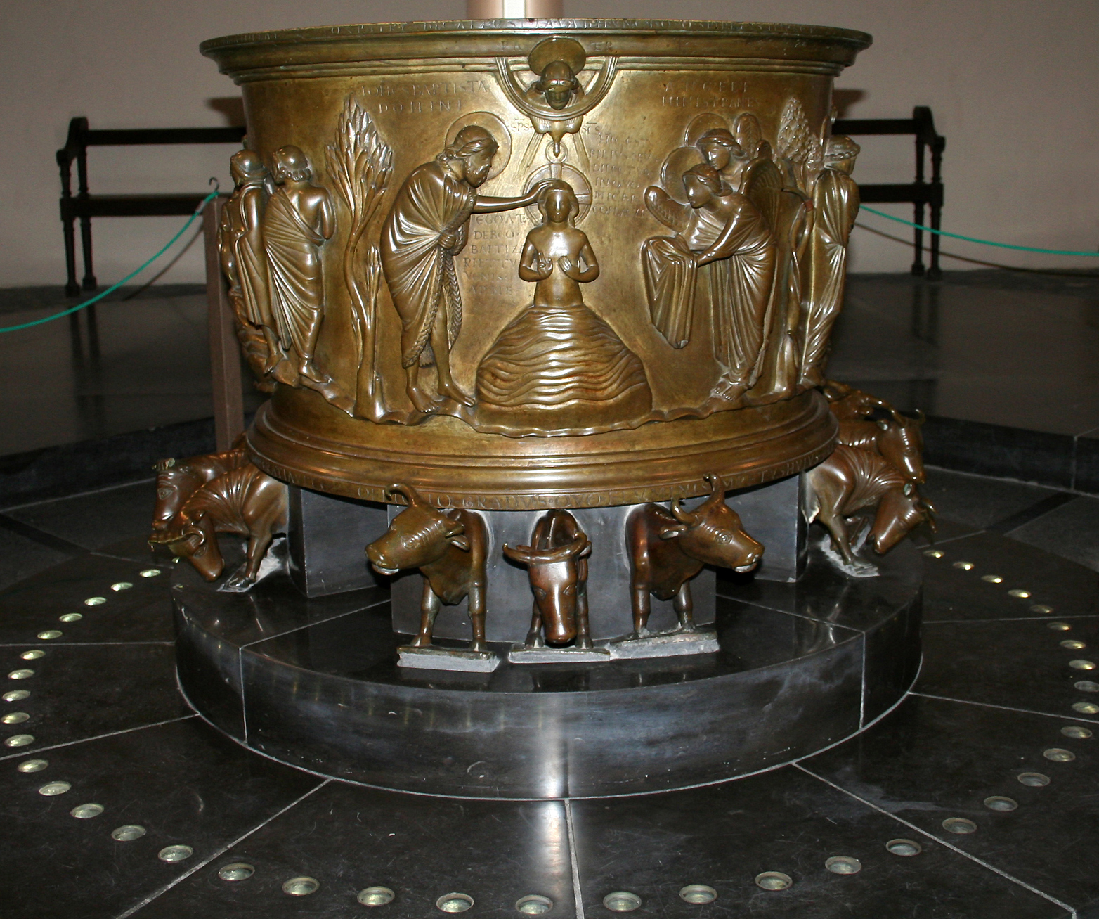 Liège (Belgium), church of St. Barhélemy (Bartholomew) - Baptismal font of Renier de Huy (begin of the XIIth century).